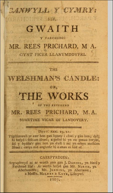 Canwyll y Cymry; sef, Gwaith : 'The Welshman's Candle' by Rhys Prichard (Y Ficer Prichard); published 1659. This edition published 1807.